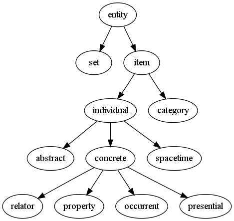 The taxonomic tree of the General Formal Ontology.